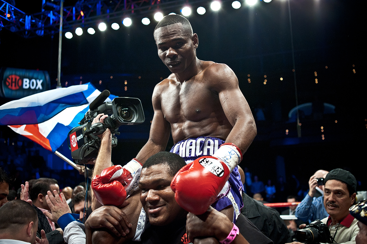 Guillermo Rigondeaux celebrates after beating Rico Ramos on January 20, 2012 at the Palms Casino in Las Vegas